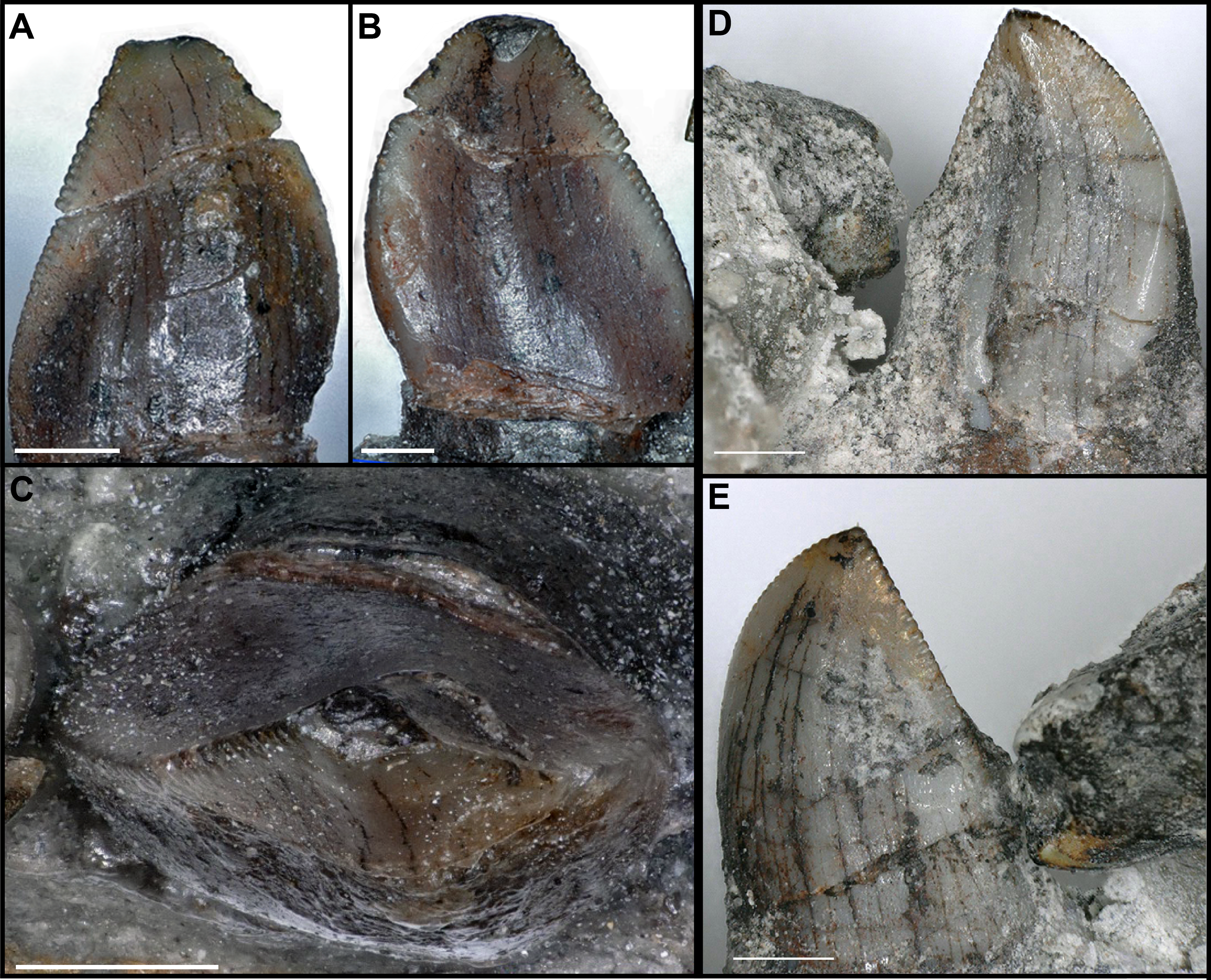 In situ Falcarius utahensis dentary teeth. UMNH VP 14527 (A–C) and UMNH VP 15259 (D, E) in labial (A, D), lingual (B, E) , and occlusal (C) views. Scale bar represents 1 mm.